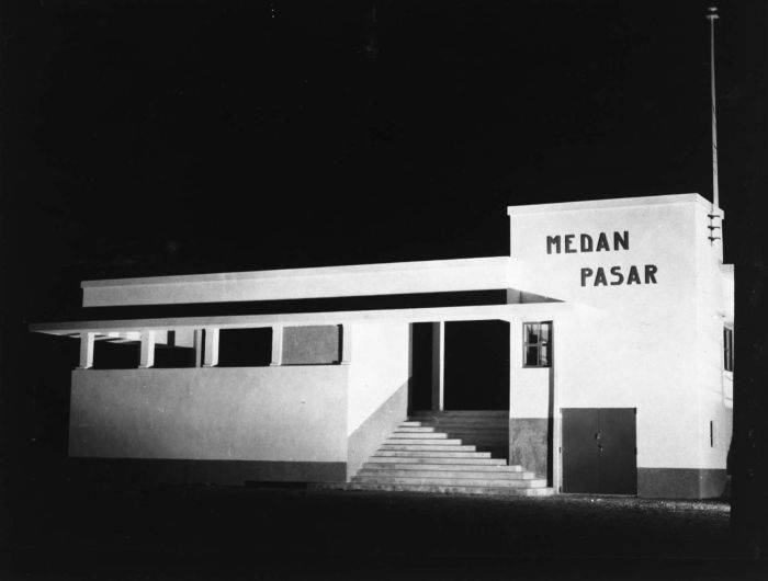 The 'Medan Pasar' railway station of the Deli Railway Company (DSM)